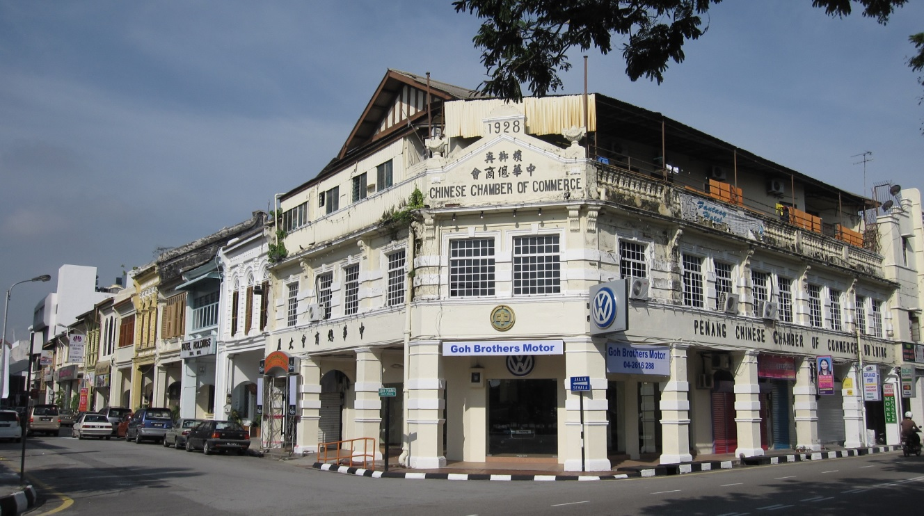 Penang Chinese Chamber of Commerce